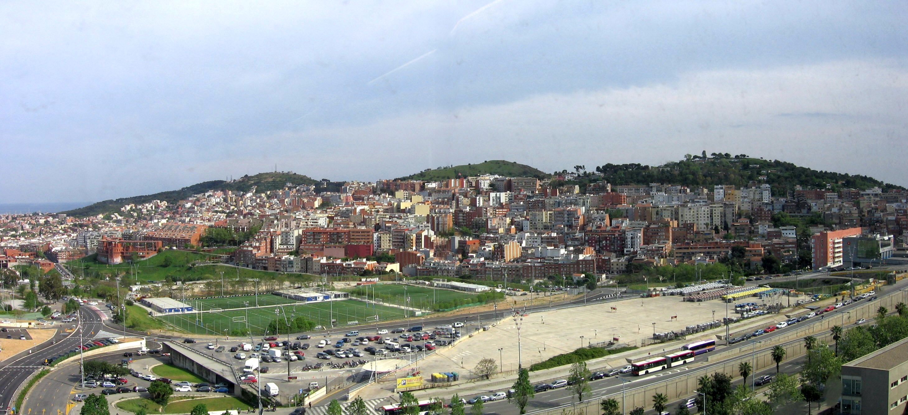 Tres Turons (Three Hills): left to right, Turó de la Rovira, Turó del Carmel and Turó de la Creueta del Coll.